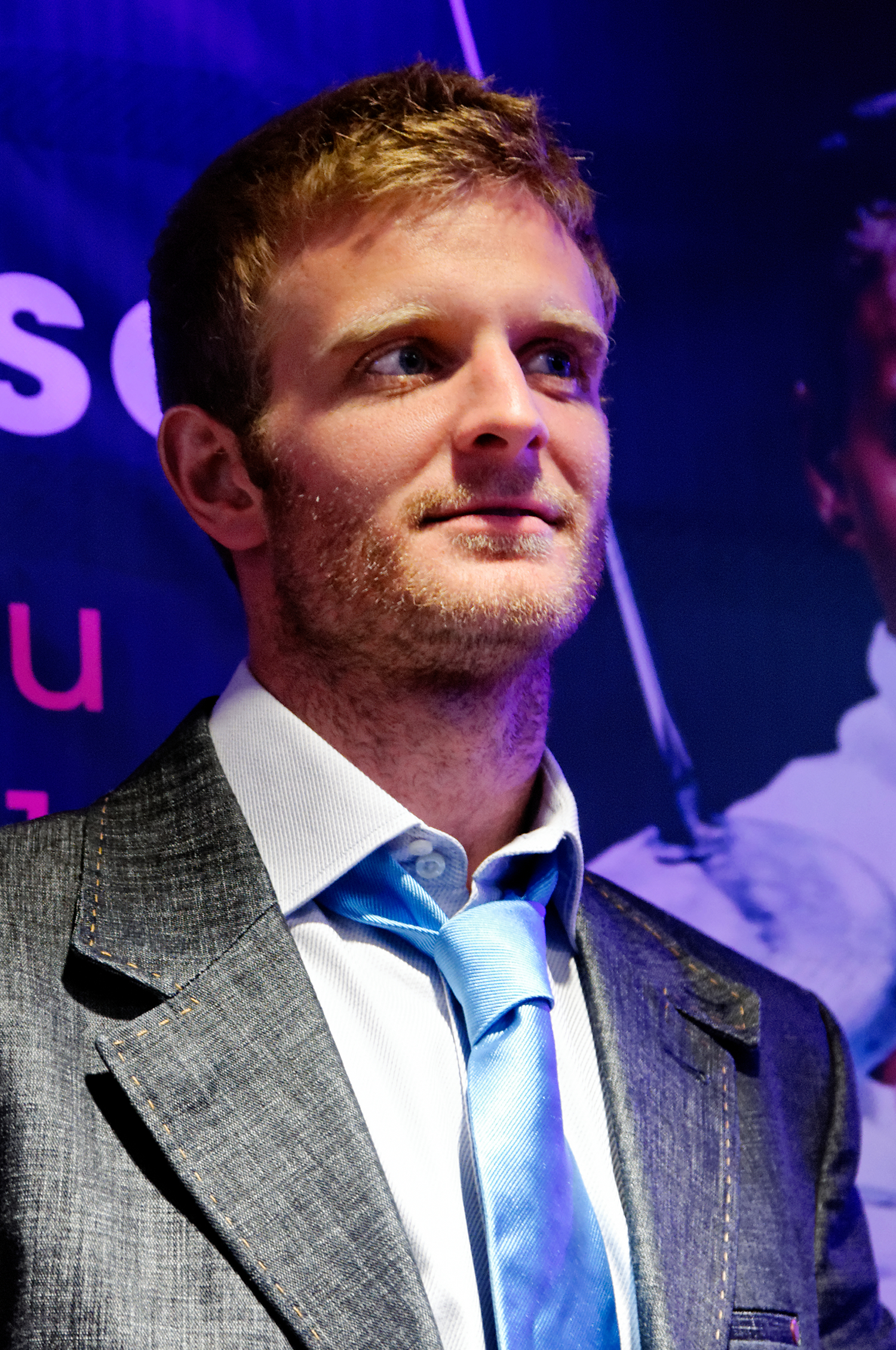 French fencer Brice Guyart at a press conference of the French Fencing Federation in Paris, before the 2012 Summer Olympic Games.